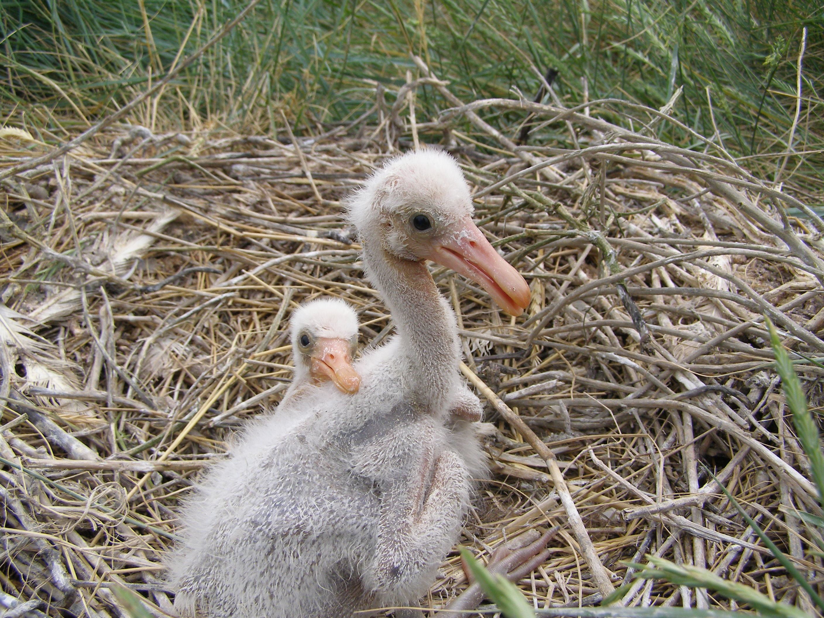 young spoonbill in the nest, Ostfriesland, lower saxony, Germany